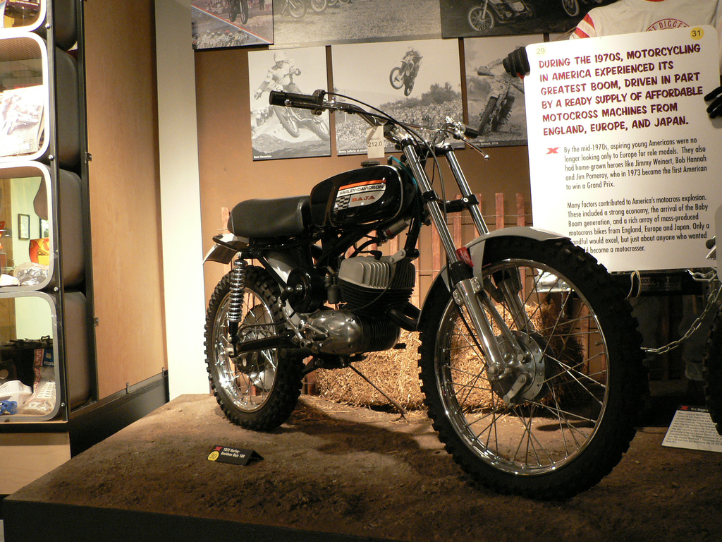 Captioned "Last picture from the AMA Hall of Fame. 1972 Harley Davidson Baja 100. I like it because it doesn't look like a regular Harley. It's small for one thing and it's built for the desert races, Still a beautiful machine."